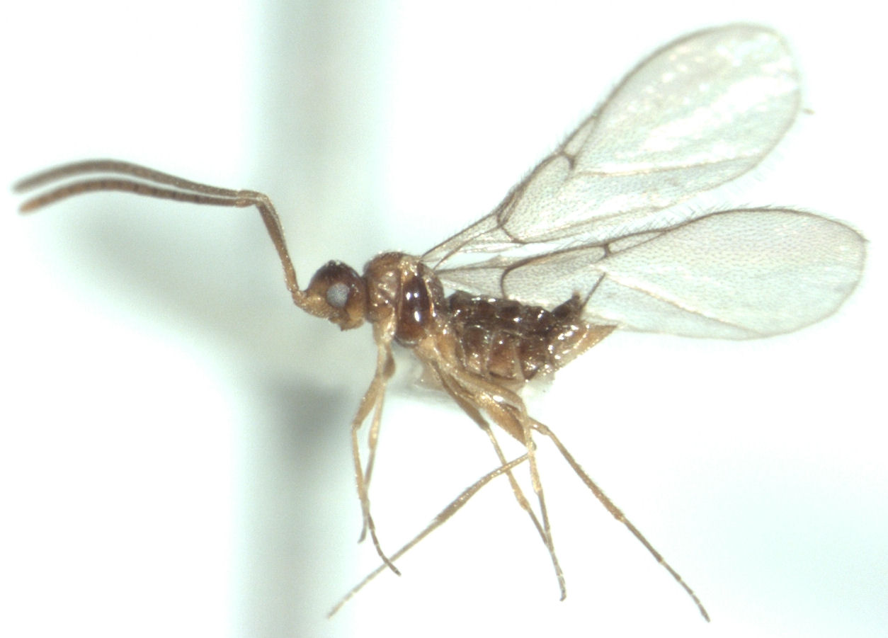 adult female Maaminga rangi